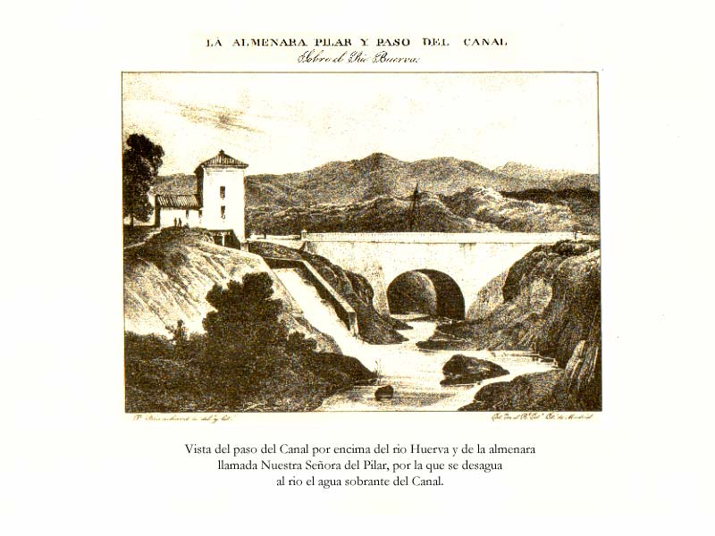 The Image was taken from the historical collection of the Imperial Canal of Aragon, being them the digitalised version of a engraving dated in 1833. La imagen forma parte de la colección histórica del Canal Imperial de Aragón, versión digitalizada de una serie de grabados de 1833 This work is in the public domain in its country of origin and other countries and areas where the copyright term is the author's life plus 70 years or fewer. You must also include a United States public domain tag to indicate why this work is in the public domain in the United States. Note that a few countries have copyright terms longer than 70 years: Mexico has 100 years, Jamaica has 95 years, Colombia has 80 years, and Guatemala and Samoa have 75 years. This image may not be in the public domain in these countries, which moreover do not implement the rule of the shorter term. Côte d'Ivoire has a general copyright term of 99 years and Honduras has 75 years, but they do implement the rule of the shorter term. Copyright may extend on works created by French who died for France in World War II (more information), Russians who served in the Eastern Front of World War II (known as the Great Patriotic War in Russia) and posthumously rehabilitated victims of Soviet repressions (more information). This file has been identified as being free of known restrictions under copyright law, including all related and neighboring rights.